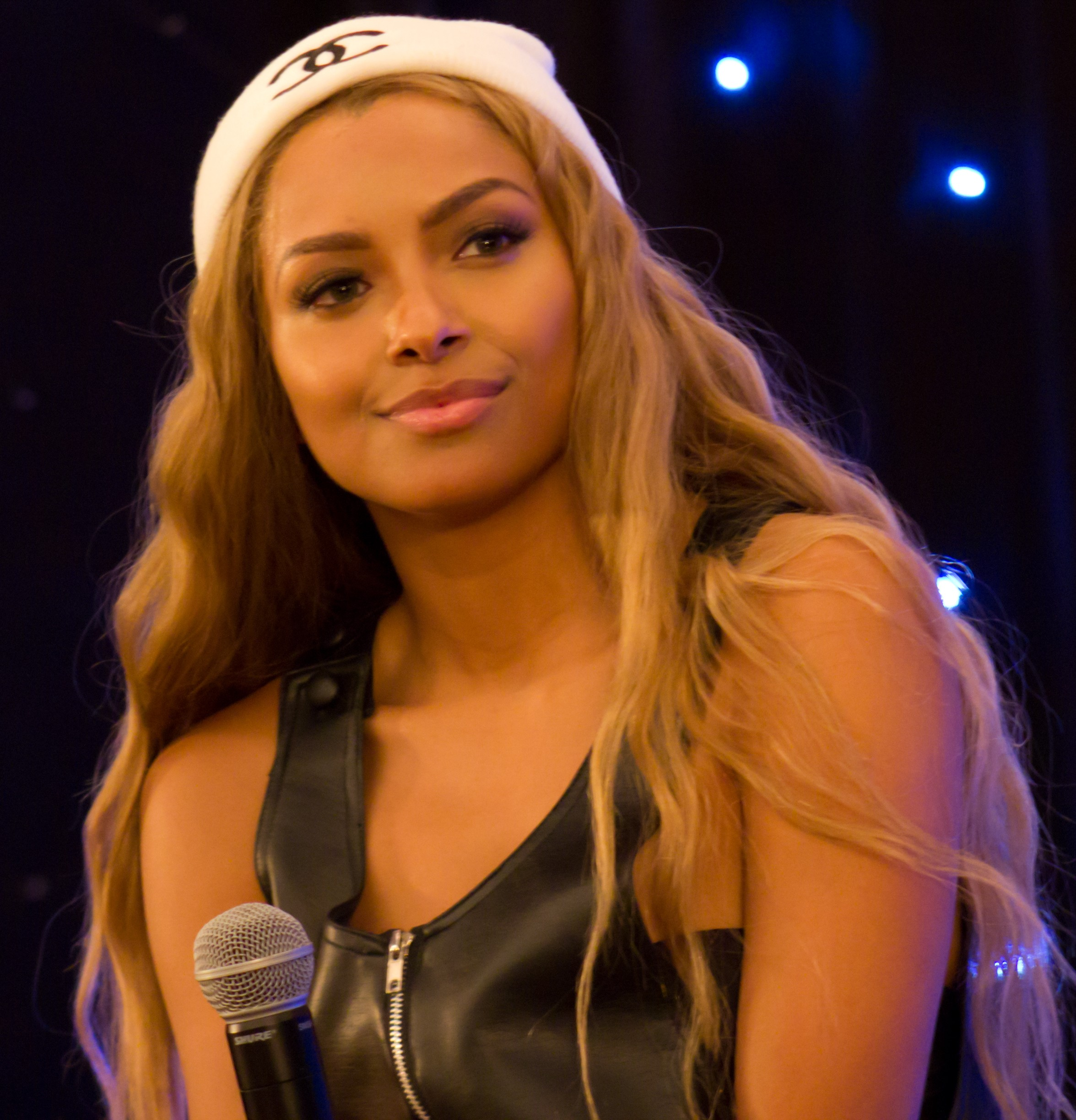 Kat Graham on June 15, 2013